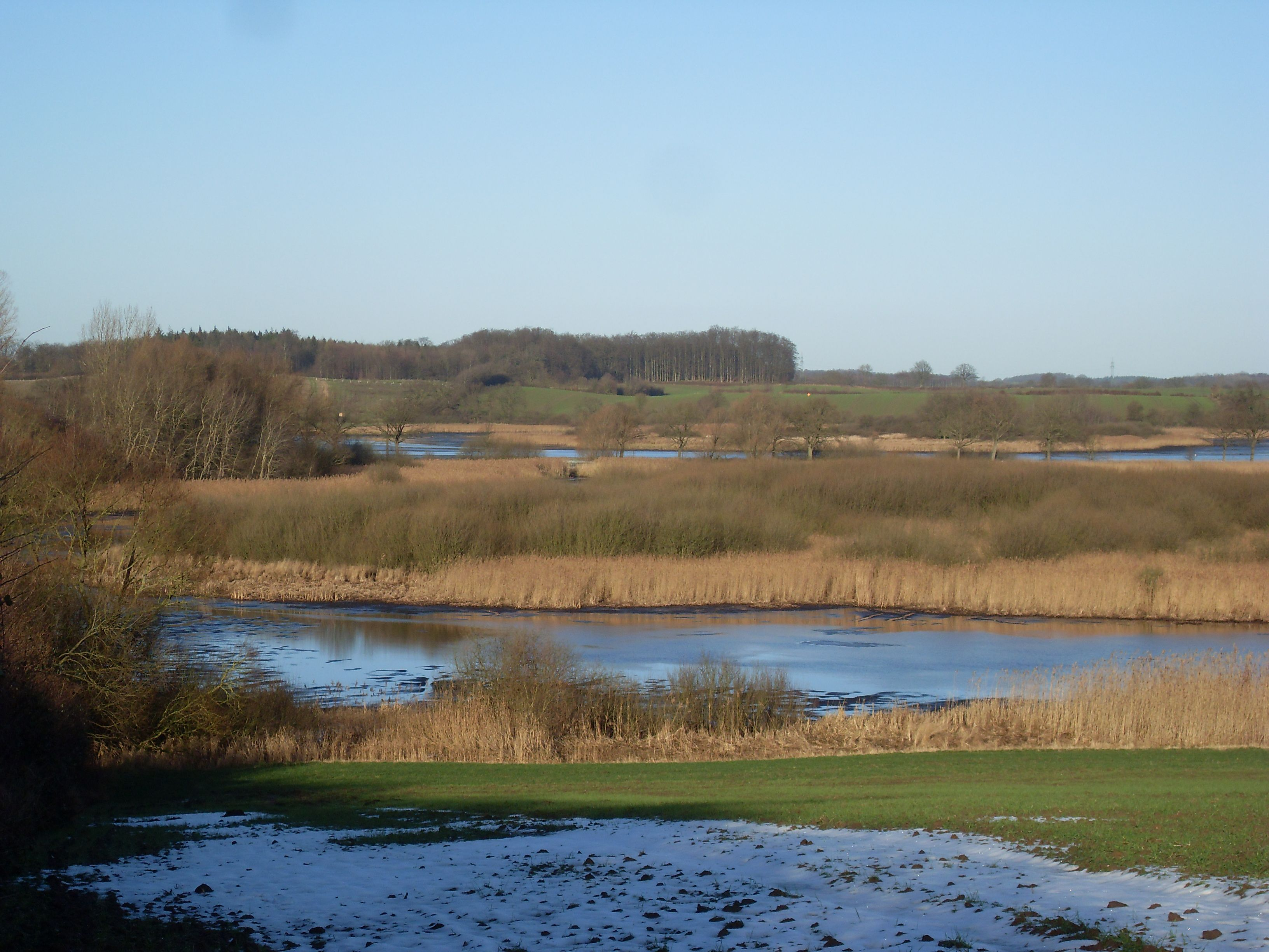 Nature Reserve Vogelfreistätte Lebrader Teich, view from south, Schleswig-Holstein, Germany